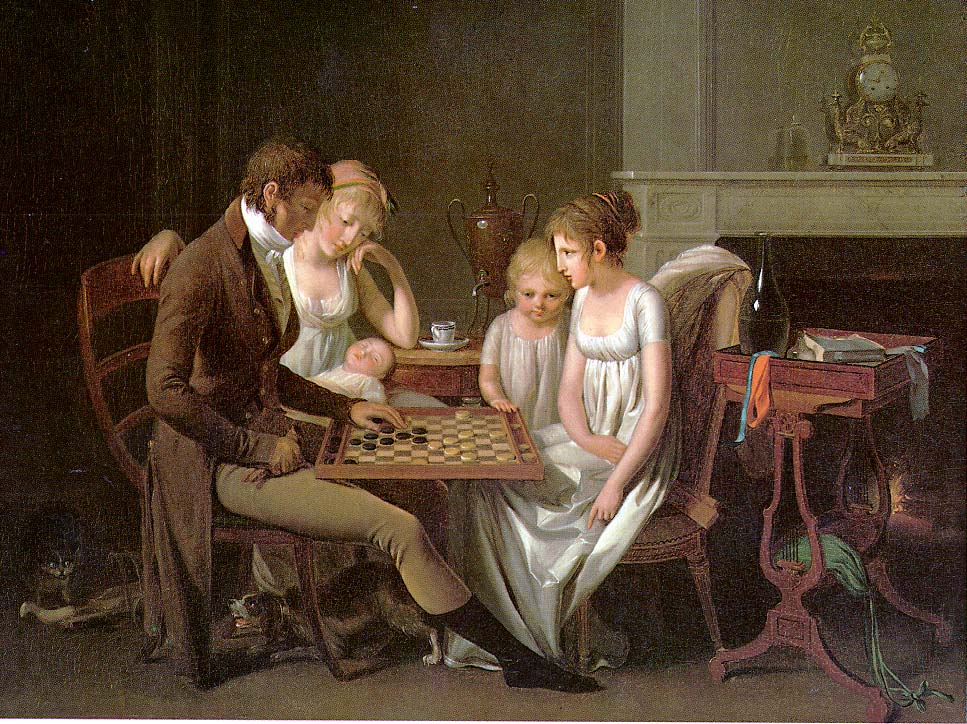 Shows the Paris idea, under strong neoclassical fashion influences in the years around 1800, of attire for females of different ages. On the floor, the family dog and cat don't seem to be getting along.